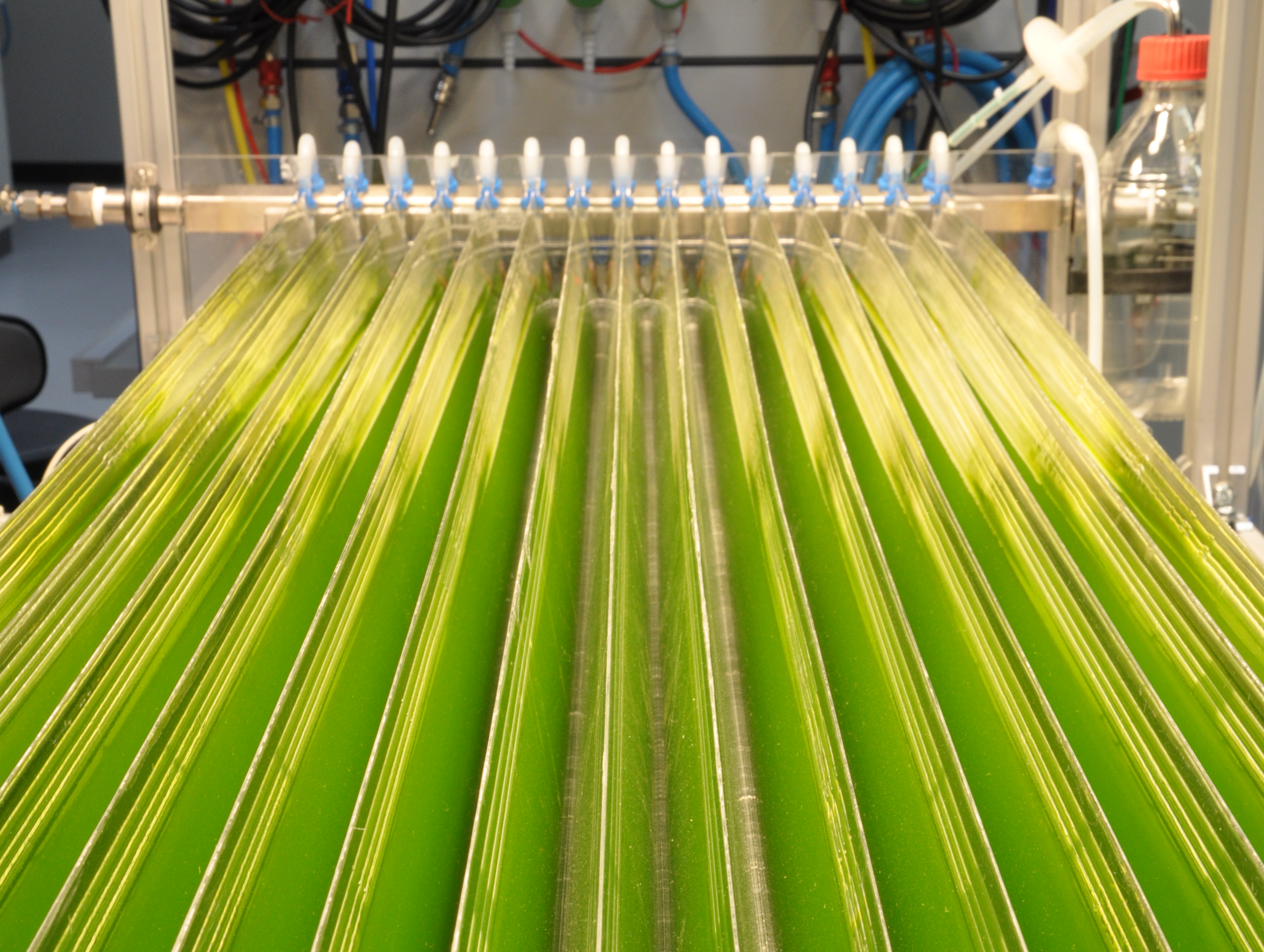 Horizontal-Photobioreaktor mit Zick-Zack-förmigen Vertiefungen